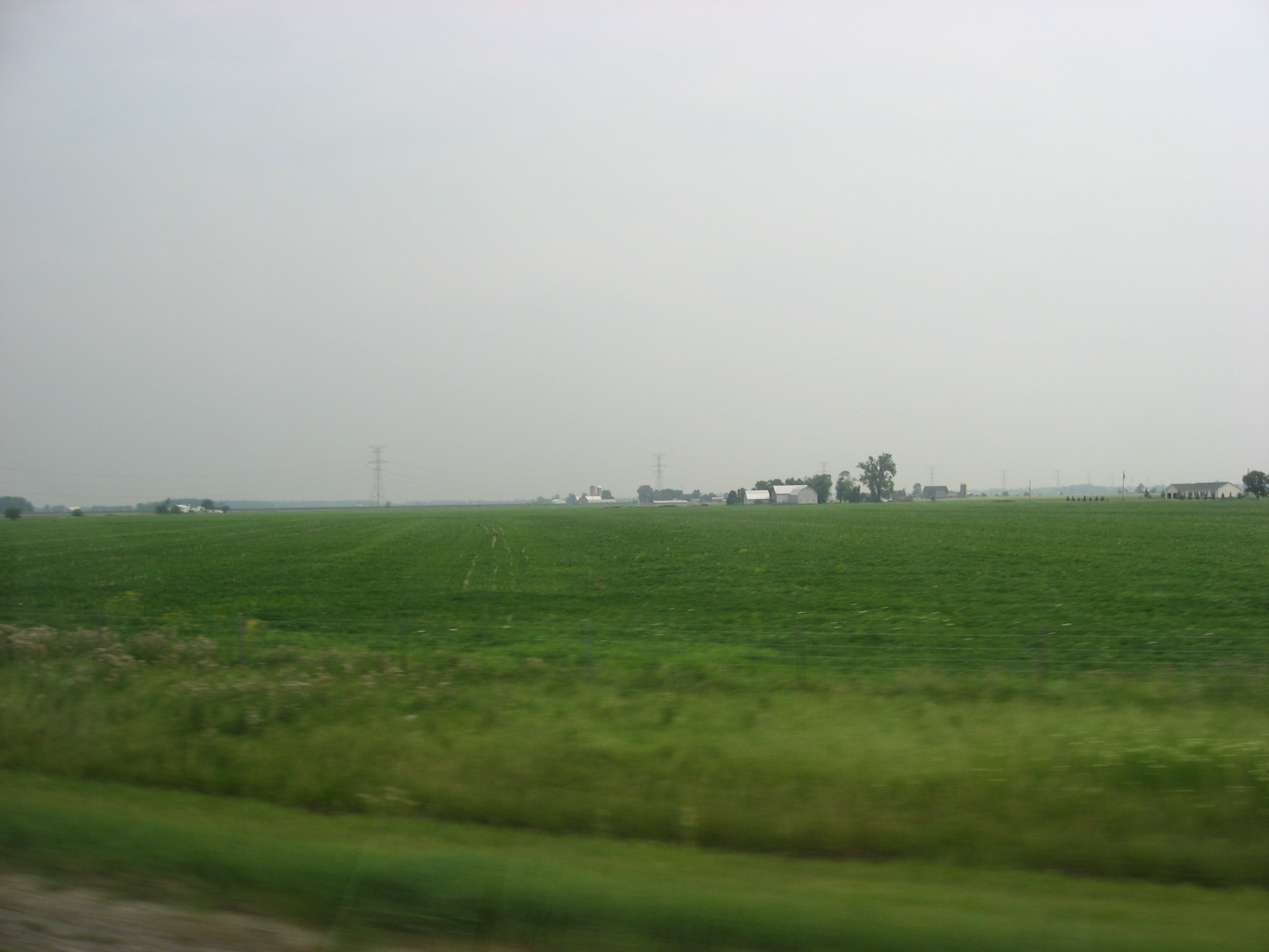 Countryside in southwestern Clay Township, Ottawa County, Ohio, United States. Picture taken looking northward from the concurrent Interstates 80/90 (the Ohio Turnpike).